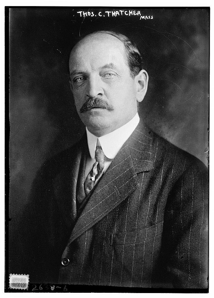 Bain News Service,, publisher. Thomas Chandler Thacher, Mass. [no date recorded on caption card] 1 negative : glass ; 5 x 7 in. or smaller. Notes: Title from unverified data provided by the Bain News Service on the negatives or caption cards. Forms part of: George Grantham Bain Collection (Library of Congress). Format: Glass negatives. Repository: Library of Congress, Prints and Photographs Division, Washington, D.C. 20540 USA, General information about the Bain Collection is available at Persistent URL: Call Number: LC-B2- 2638-6